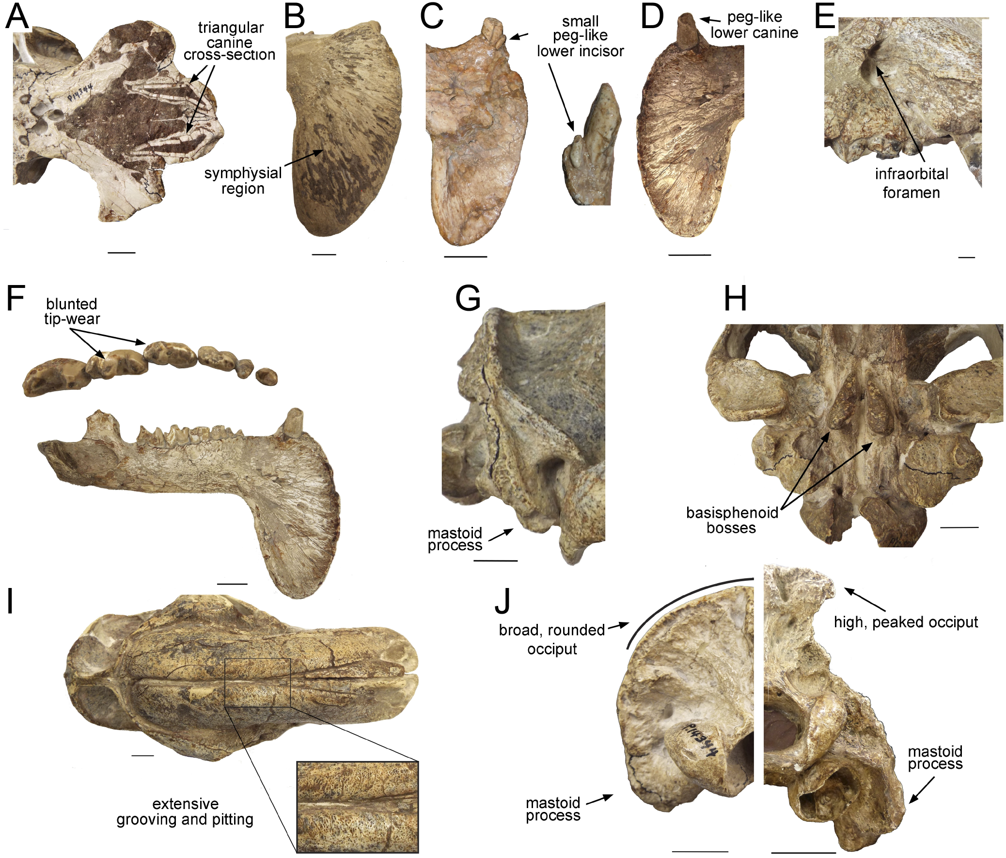 Craniodental details of Thylacosmilus atrox. (A) Upper canines. (B) Jaw symphysis (medial view). (C) Jaw symphysis (lateral view) showing lower incisor, plus detail of incisor. (D) Lower canines. (E) Infraorbital foramen. (F) Occlusal and lateral views of mandibular cheek teeth. (G) Mastoid process. (H) Basisphenoid bosses. (I) Maxillary bones, showing pitting and grooving. (J) Comparison of the occiput of T. atrox (left) and Megantereon cultridens (right, AMNH 113842). See text for more details. Photographs (A,B and D-J) of FMNH PP14531 (T. atrox holotype), P14344 (T. atrox paratype), and AMNH 113842 (M. cultridens) by Christine Janis, used here with permission, courtesy of the Department of Vertebrate Paleontology, Field Museum of Natural History, Chicago, IL, USA, and the Department of Vertebrate Paleontology, American Museum of Natural History, New York, NY, USA; C courtesy of A. Forasiepi (specimen PMM-144334). Scale bar = 3 cm.